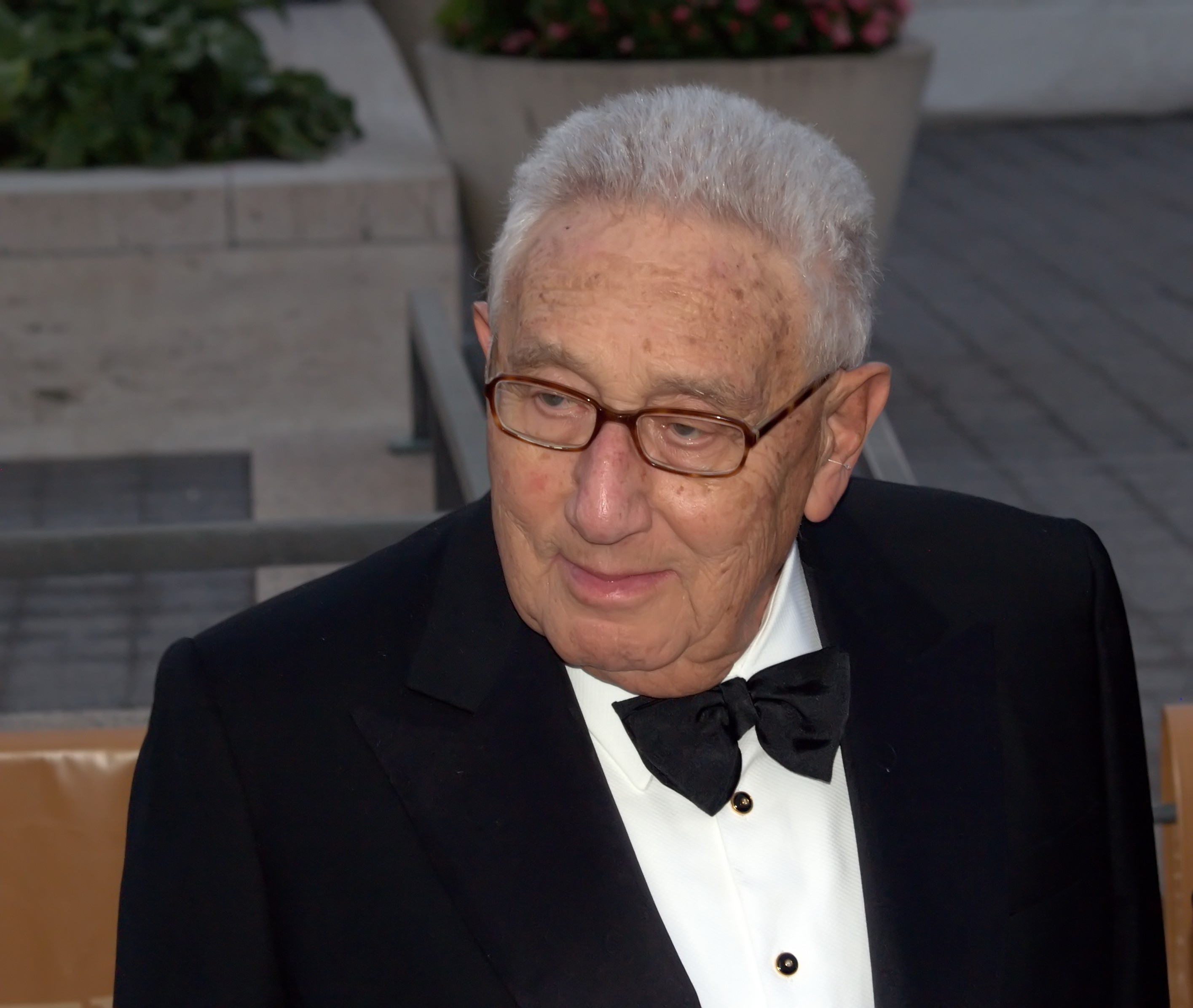 Henry Kissinger at the 2009 premiere of the Metropolitan Opera in New York City. Photographer's blog post about event and photograph.